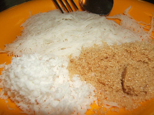 Indian food Putu Mayam